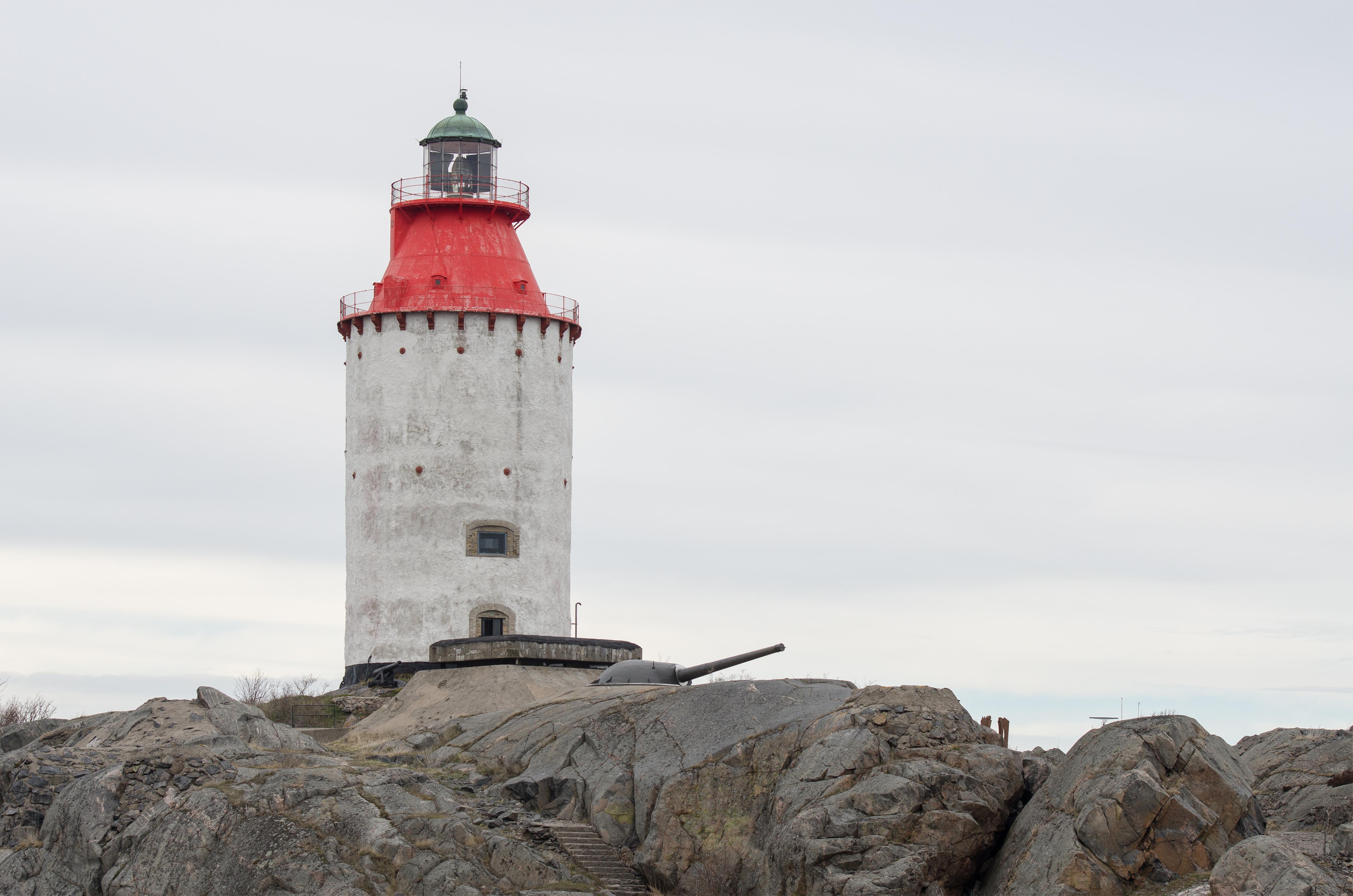 Landsort Lighthouse (view from south), Öja island (Landsort), Stockholm archipelago's most southern point. During the Cold War and World War II was Landsort a military base for the Swedish coastal artillery.